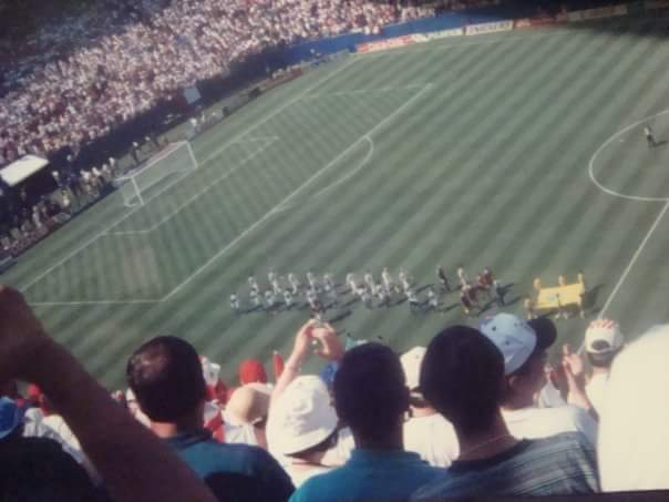 Italy vs Norway at World Cup 1994